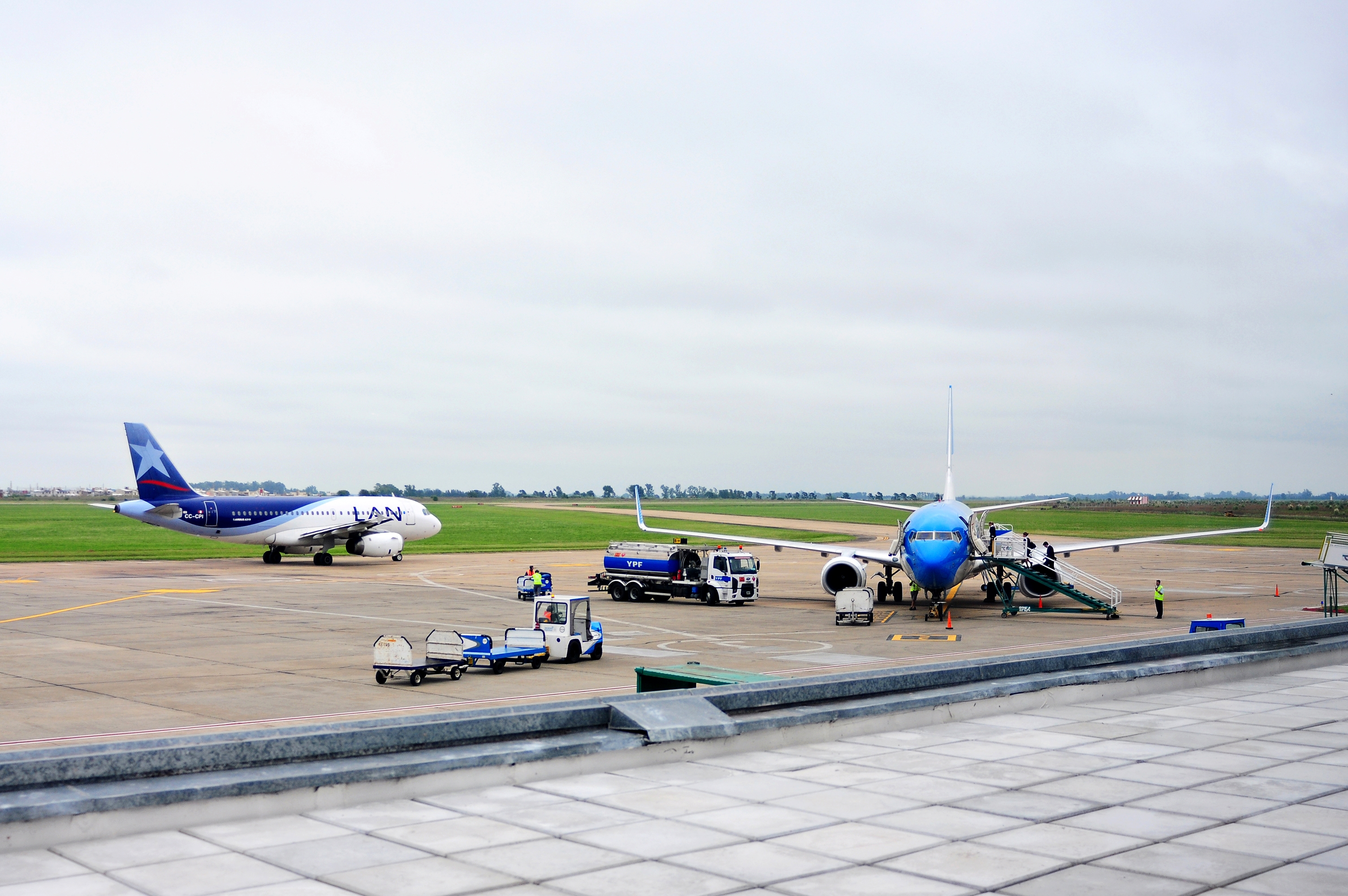 Airbus A319 LATAM Perú (CC-CPI) and Boeing 737-700 Aerolíneas Argentinas (LV-CWL). Rosario – Islas Malvinas International Airport. February 2017.